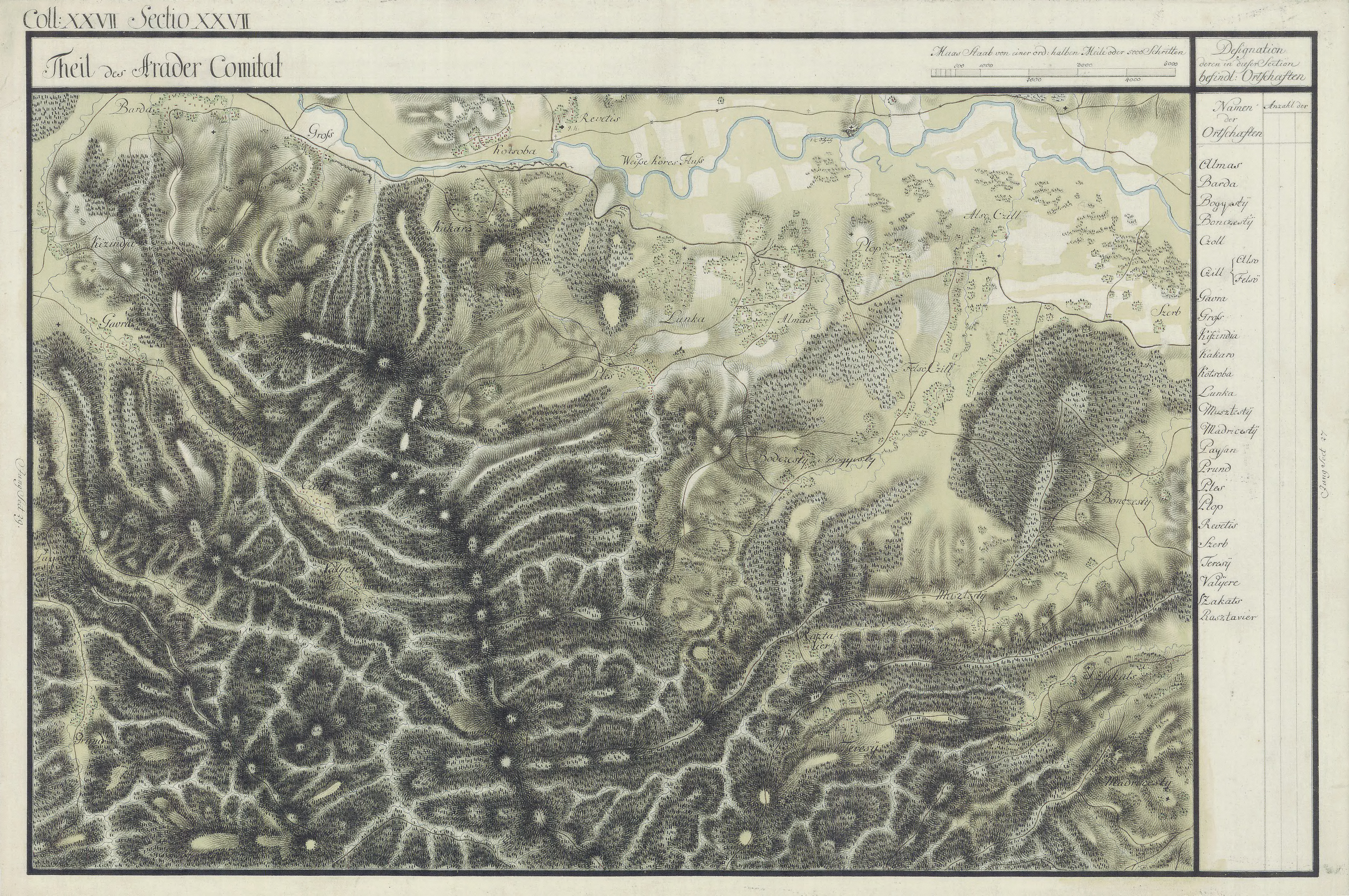 Arad County, 1782-85. Josephinische Landesaufnahme pg.27-27